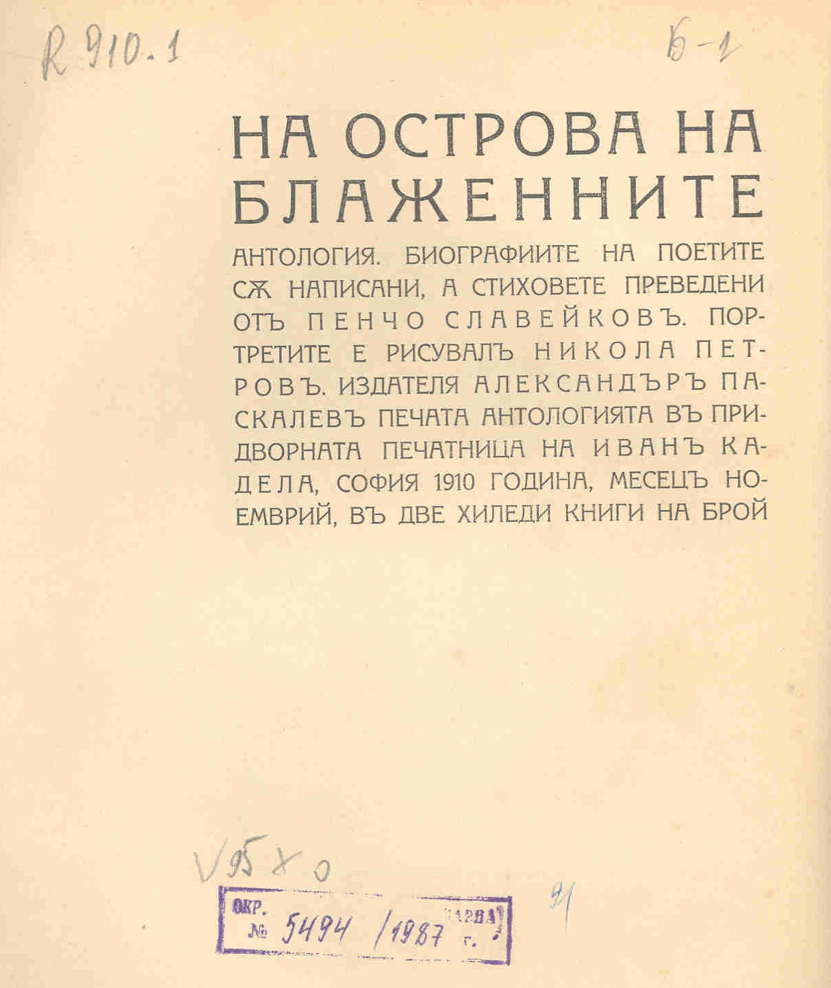 Cover of Ostrova na blazhenite, Pencho Slaveykov, 1910